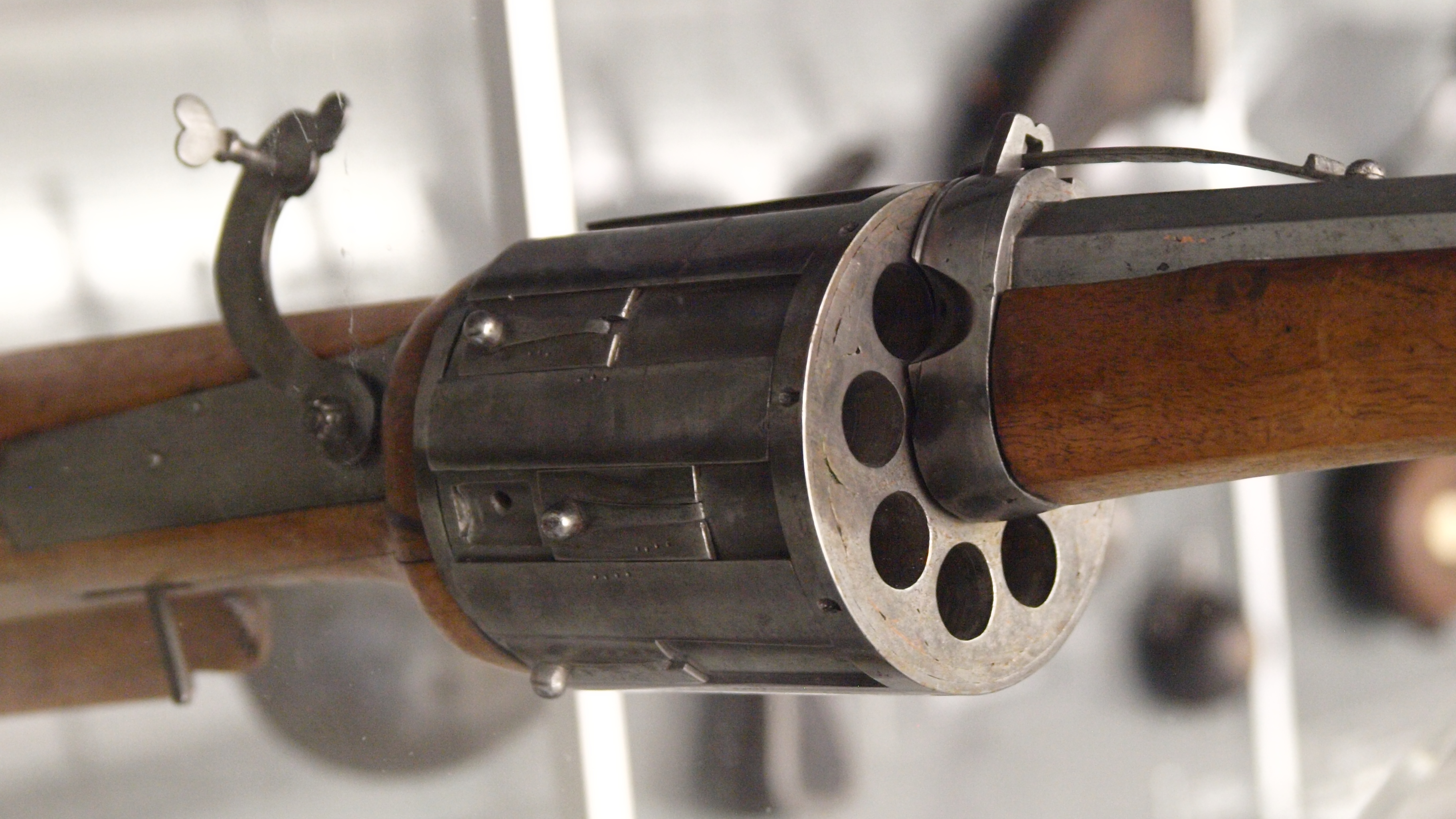 Detail of a matchlock revolver (Germ. Drehlling). Made in Nuremberg, Germany ca. 1580. Germanisches Nationalmuseum Nürnberg Inventory No W 1984. Image of the complete Rifle, 2nd photo at the data set of an other weapon at Germanisches Nationalmuseum (Germnan).